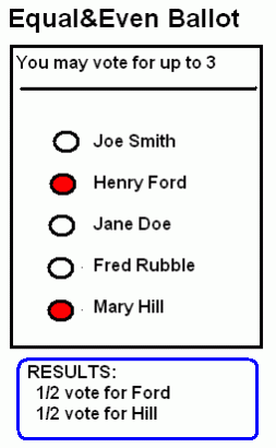 Cumulative Equal&Even Voting example ballot